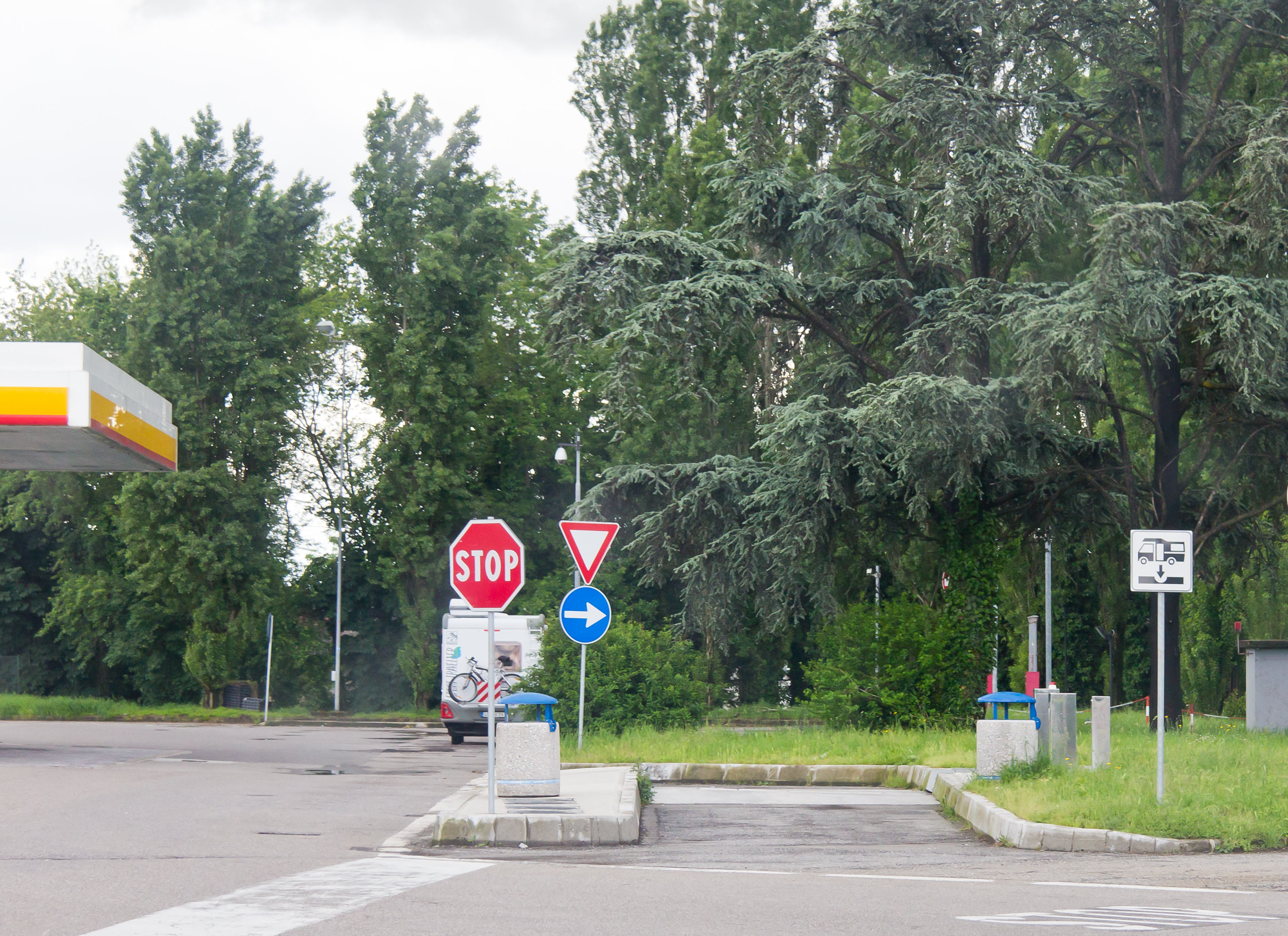 Holding tank dump station/sewage outlet for recreational vehicles on highway (Autostrada) A1, service area San Zenone, Italy. Driving direction south.